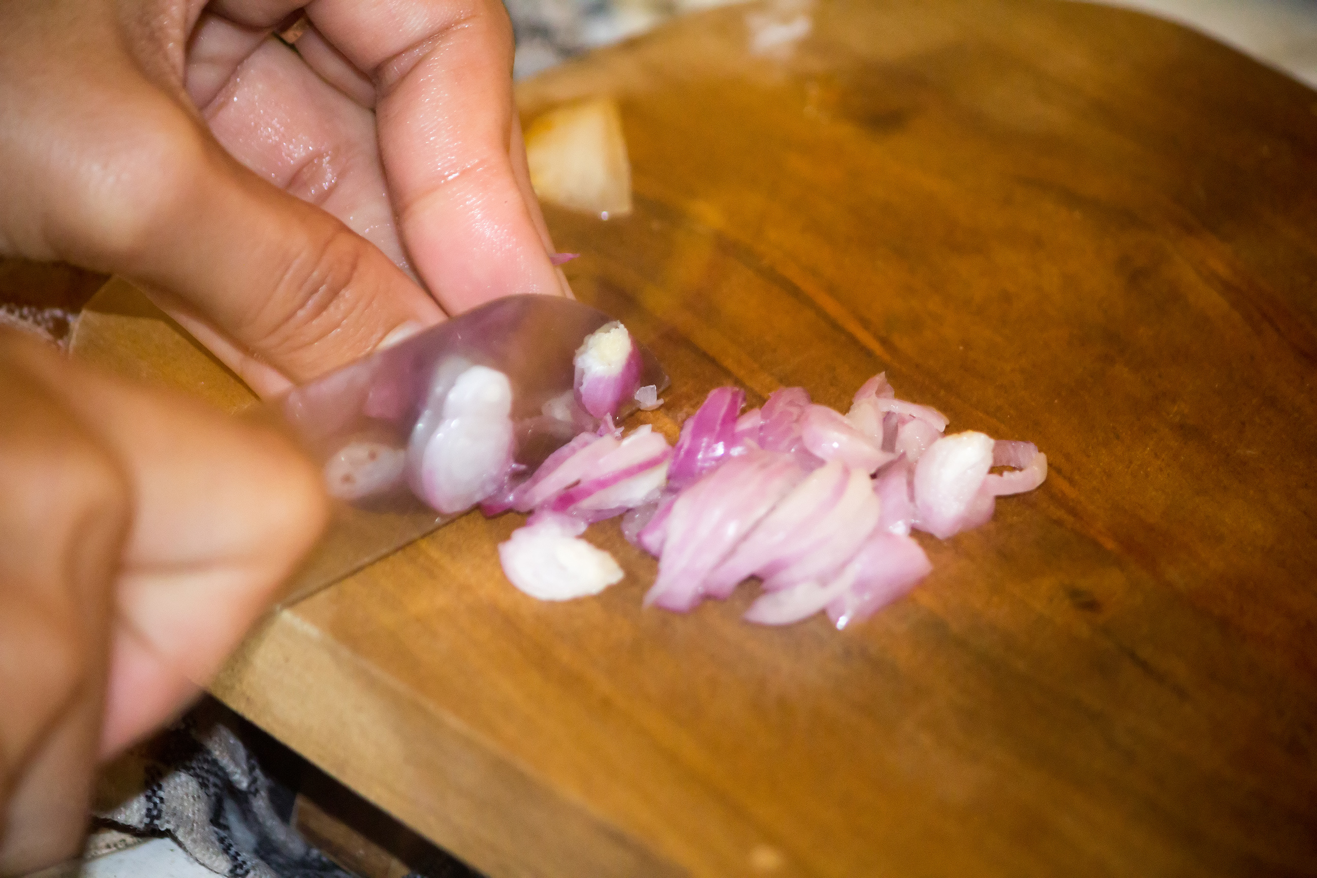 Woman chopping shallots, for making sate